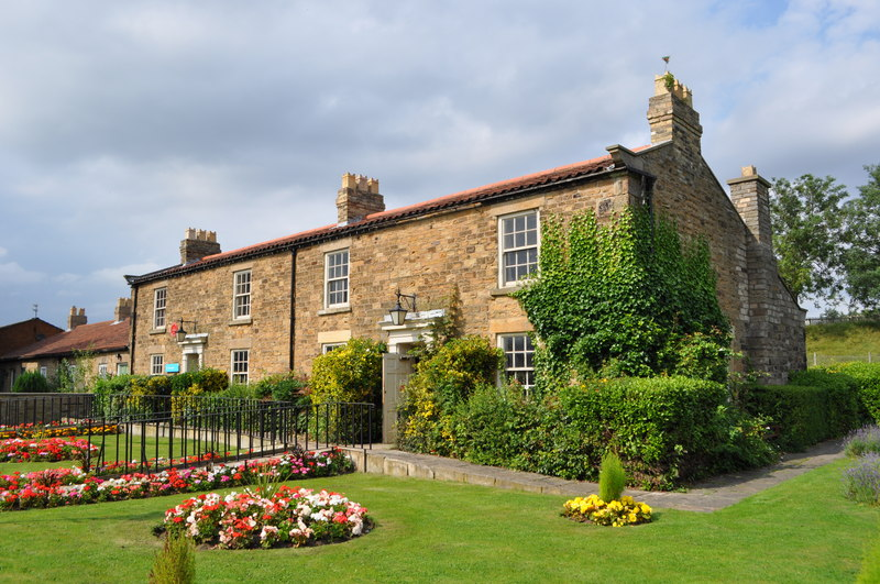 Timothy Hackworth's House, Data from Geograph: Description: Timothy Hackworth (22 December 1786 � 7 July 1850) was a steam locomotive engineer who lived in Shildon, County Durham, England and was the first locomotive superintendent of the Stockton and Darlington Railway. ICBM: 54.627076490481, -1.6415537437745 Location: (about 0 km from) near to Shildon, County Durham, Great Britain.